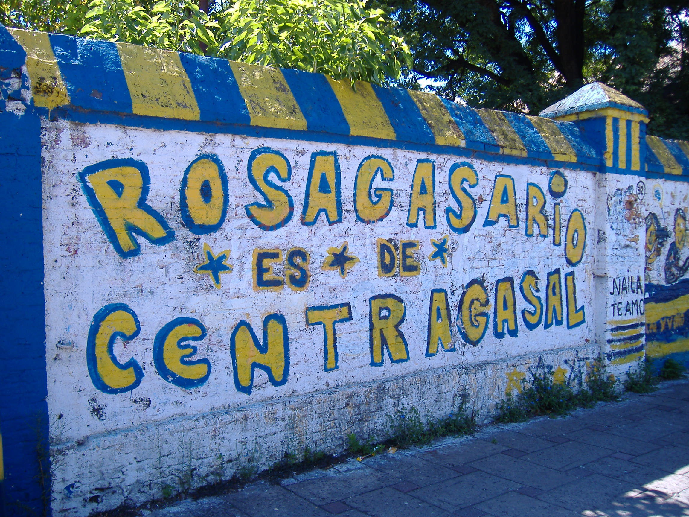 A graffiti on a wall in Alberdi Avenue, Rosario, Argentina. It was written by supporters of the Rosario Central football (soccer) team, employing a language game called Rosarigasino. It reads "ROSAGASARIO ES DE CENTRAGASAL". Without the added syllables it should be "Rosario es de Central", that is, "Rosario [the city] belongs to Central [the Rosario Central team]". Blue and yellow are the colours of the team. This picture was taken by Pablo D. Flores on 4 March 2006.